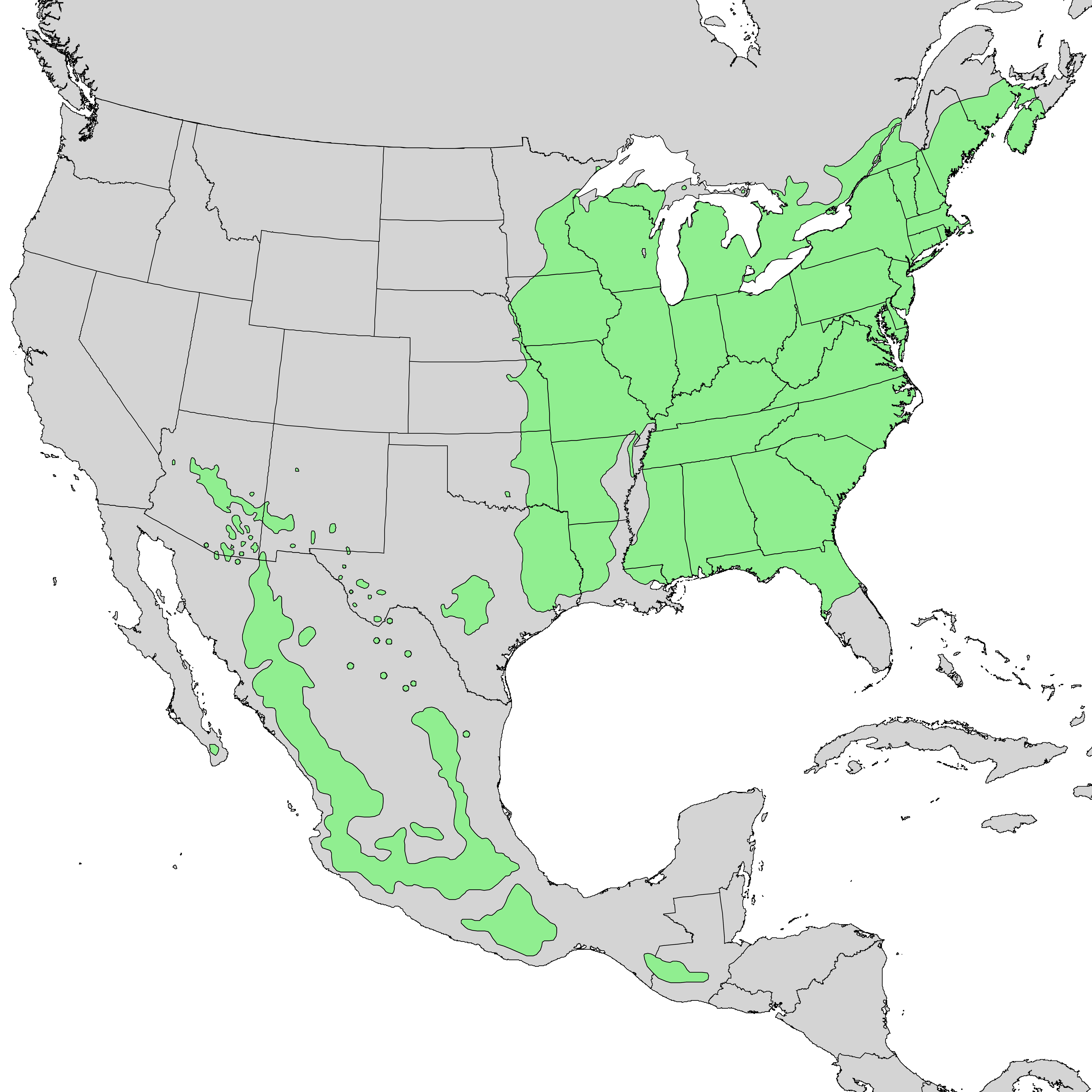 Natural distribution map for Prunus serotina (black cherry)